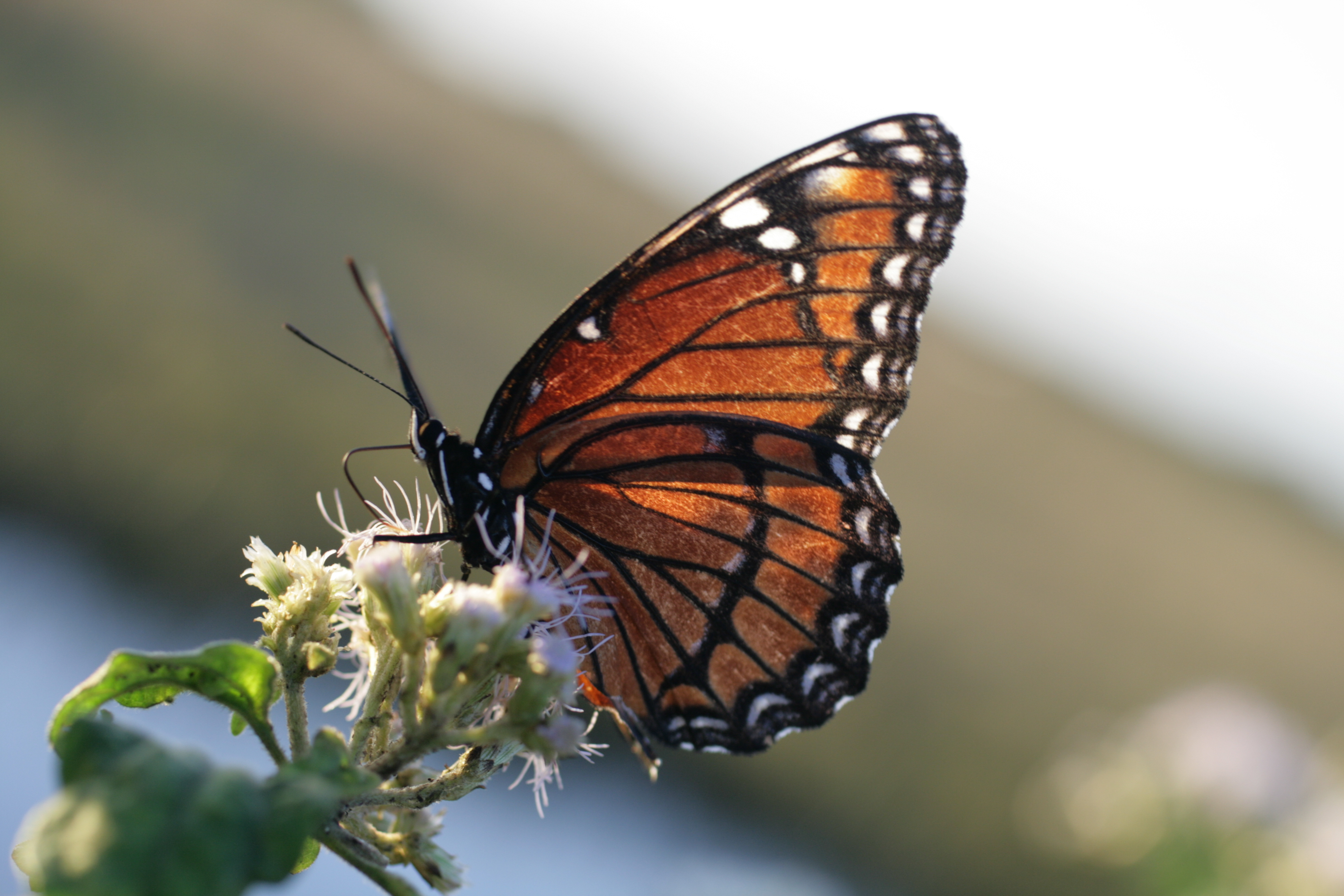 Limenitis archippus, Florida viceroy in Loxahatchee national wildlife refuge, Florida.